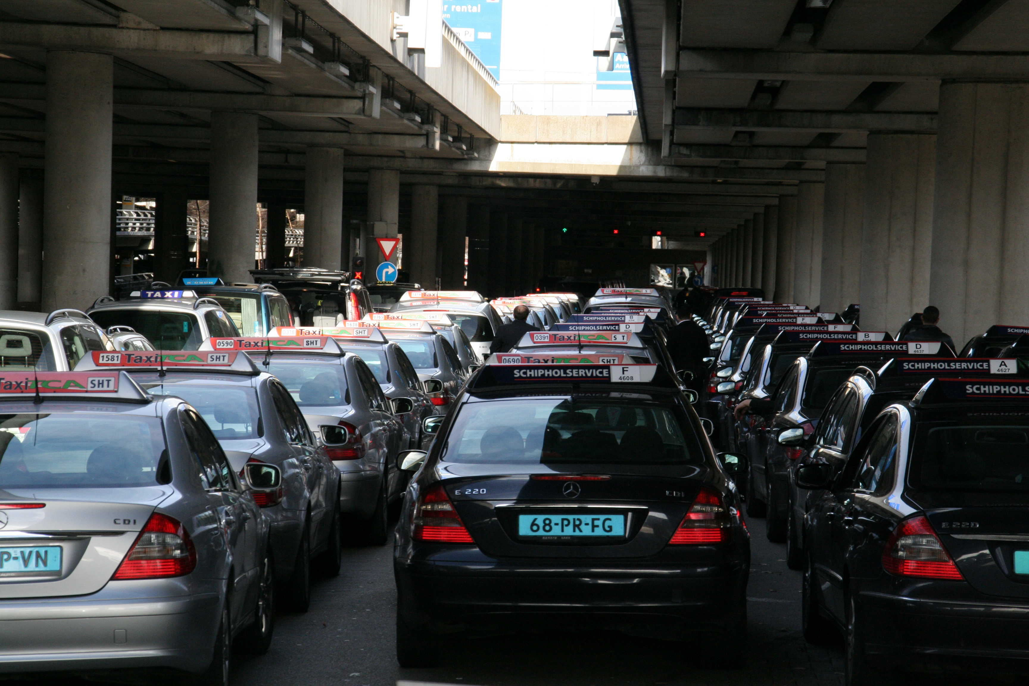 Taxicabs in Schiphol Airport